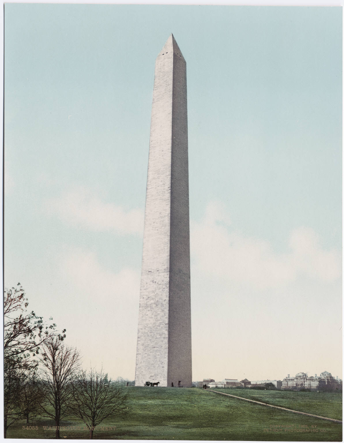 A photochrom postcard published by the Detroit Photographic Company.